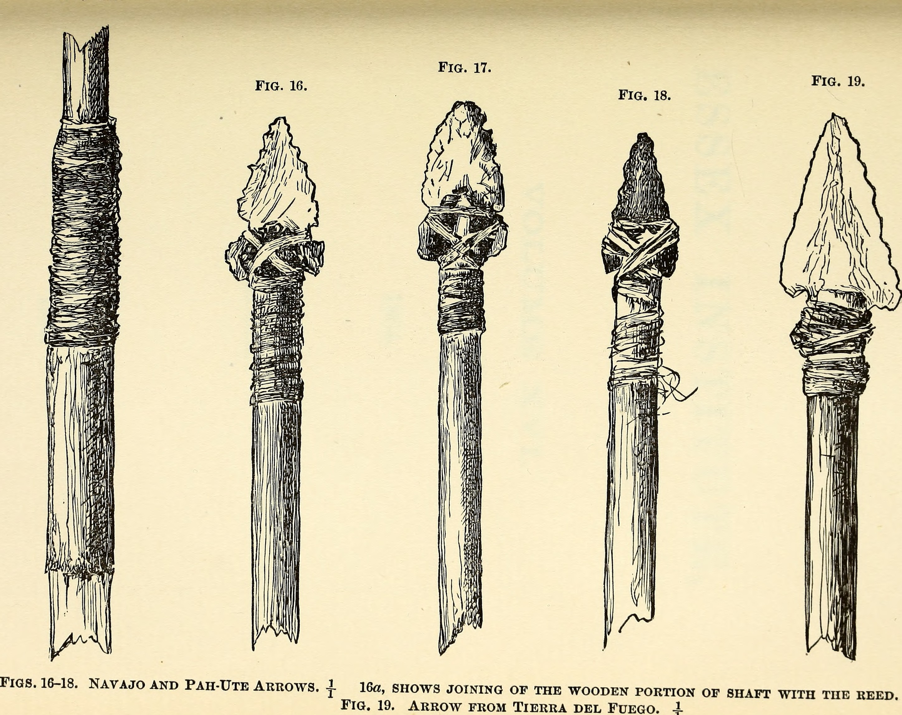 Title: Bulletin of the Essex Institute Year: 1869 (1860s) Authors: Essex Institute. 1n Subjects: Essex Institute; Natural history; genealogy Publisher: Salem, Mass. , Essex Institute Text Appearing Before Image: ' Text Appearing After Image: '